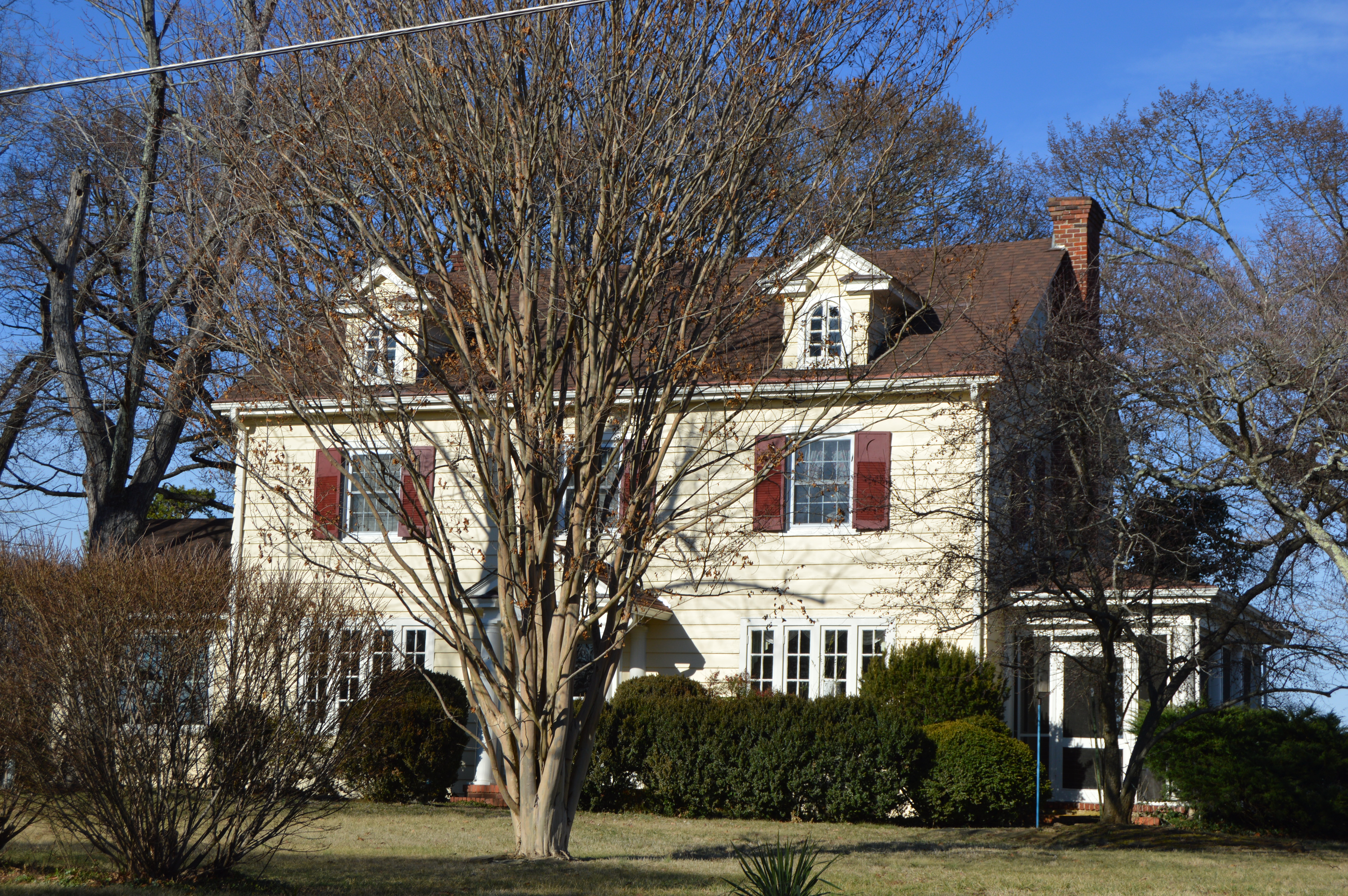 Front of the house that sits at the intersection of St. George Street and St. George Avenue in Crozet, Virginia, United States. This neighborhood is part of the Crozet Historic District, a historic district that is listed on the National Register of Historic Places.